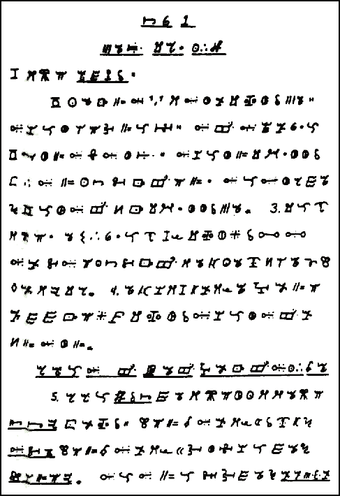 The first page of Gospel of Luke in Vai language.